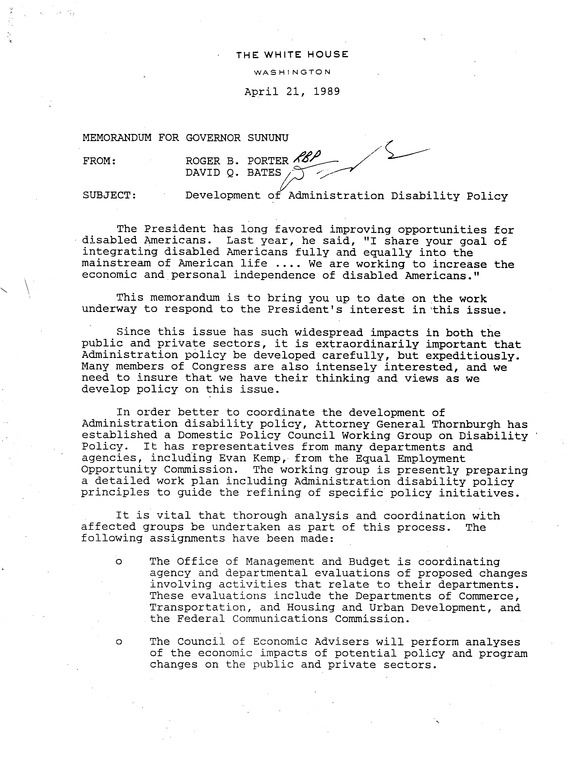 Development of Administration Disability Policy. White House Memo, page one.